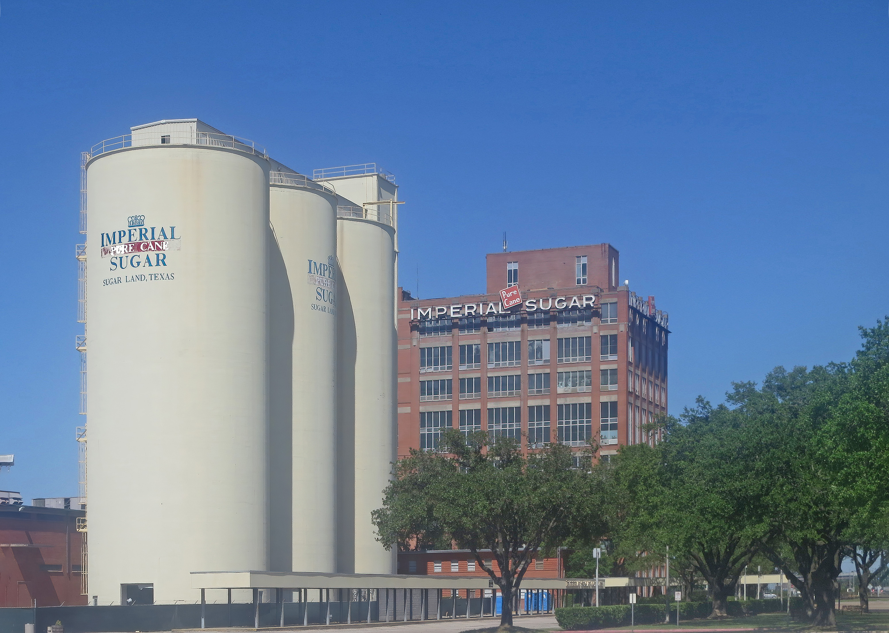 Stephen F. Austin's colonists brought sugar cane to Fort Bend County in the 1820s. The Sugar Land area was once part of Oakland Plantation, where Nathaniel and Matthew Williams planted sugar cane about 1840. They began processing the cane in 1843 using a horse-powered mill and open-air cooking kettles. In 1853 the plantation and mill were purchased by William J. Kyle and Benjamin F. Terry. They improved the mill and promoted a railroad for the area, which they named Sugar Land. Terry later helped organize the famed Confederate cavalry unit, Terry's Texas Rangers, and was killed in the Civil War. After the war, the operation was sold to Edward H. Cunningham, who expanded the sugar mill into a refinery. W. T. Eldridge and Galveston businessman I. H. Kempner, Sr. bought the refinery in 1907. They began importing raw sugar to operate the refinery year-round because local cane was available only seasonally and in decreasing quantities in the early 1900s. Named by Kempner for the Imperial Hotel in New York City, the Imperial Sugar Company and the City of Sugar Land have grown steadily. During the 1970s, the Imperial Sugar Company produced more than three million pounds of refined cane sugar daily.